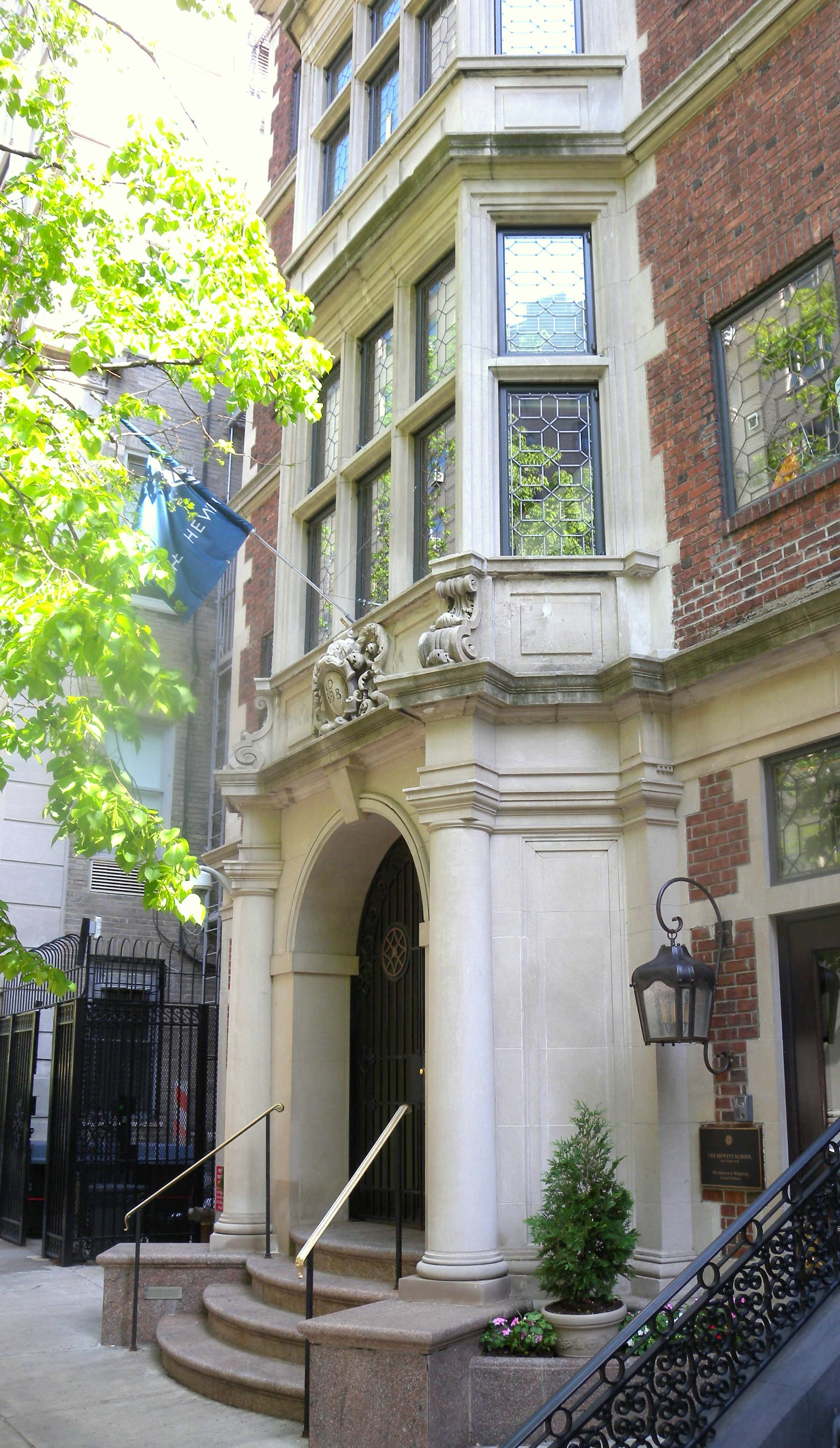 Looking north at lower school, 3 East 76th Street on a sunny summer morning.